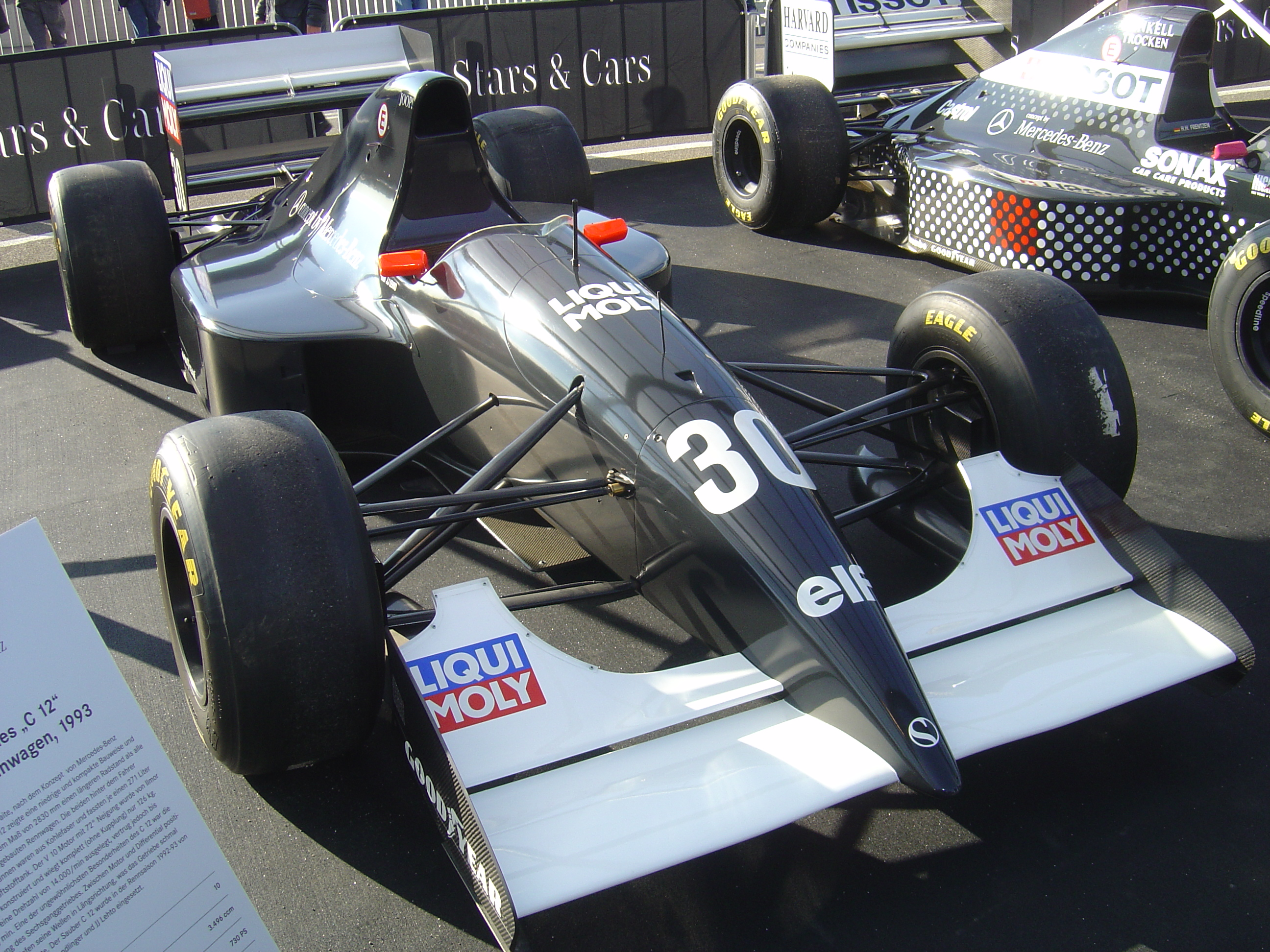 Sauber C12 Formula 1 car from 1993: the photo was taken during 2007's "Stars & Cars" event in Stuttgart-Untertürkheim